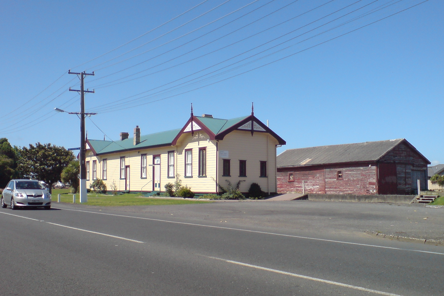 The former train station and goods shed in Thames, New Zealand. Registered by the New Zealand Historic Places Trust as a Category II structure, with registration number 719.